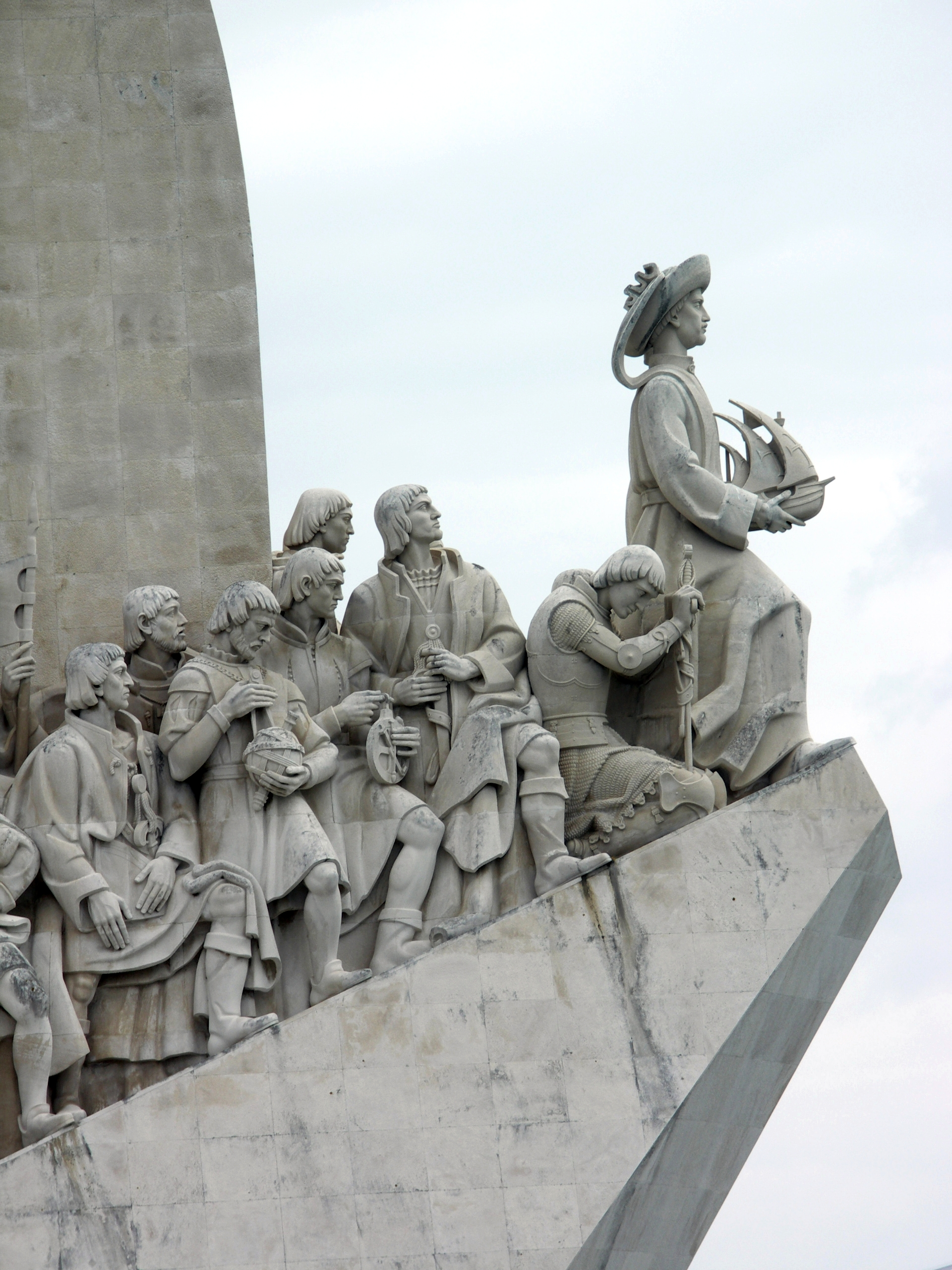 Monument to the Portuguese maritime discoveries (detail), Lisbon